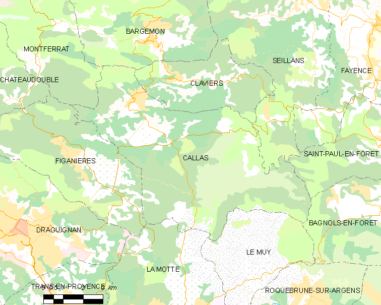 Map of French municipality Callas